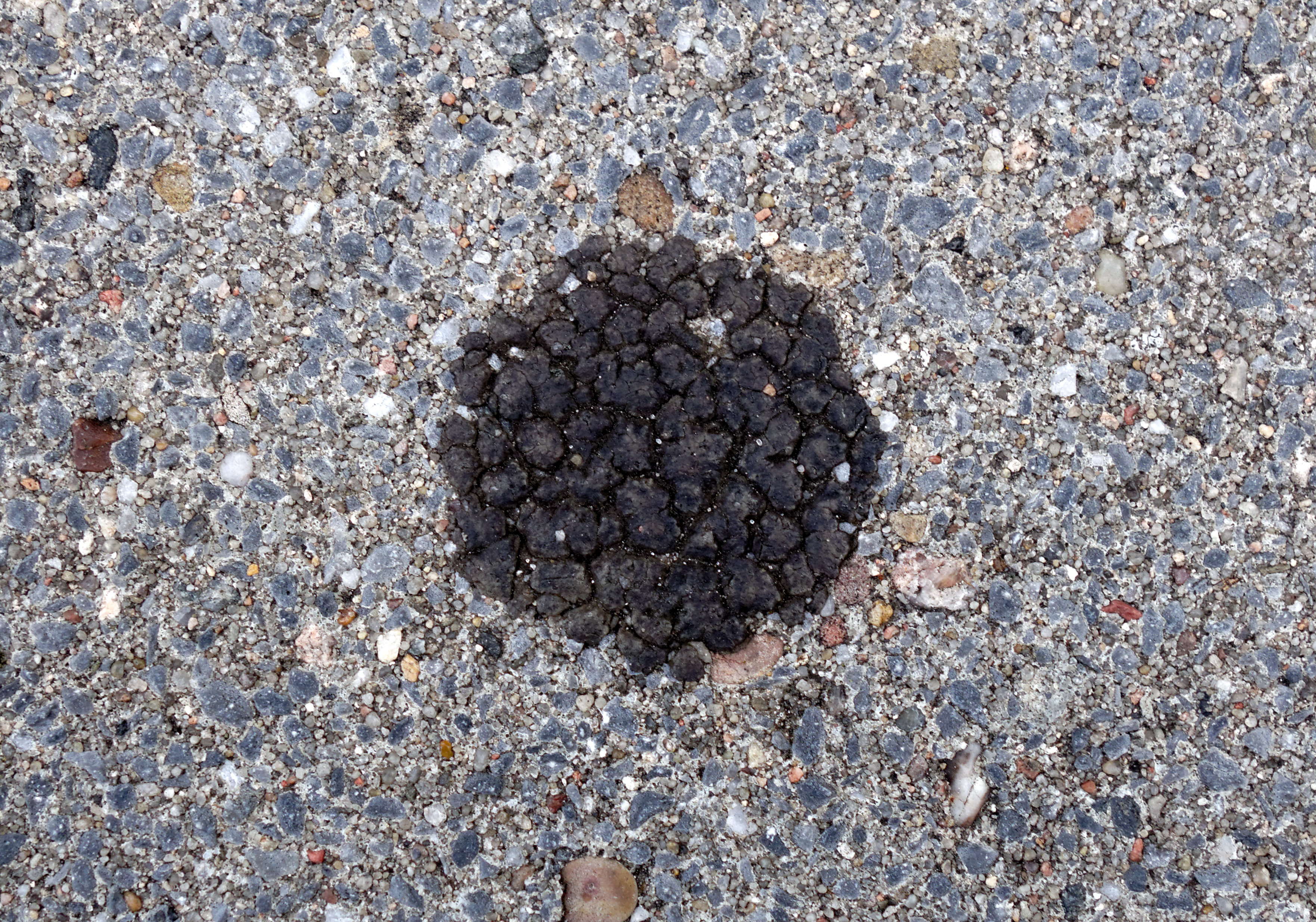 Beauty where you don't expect it: rotting chewing gum on the pavement